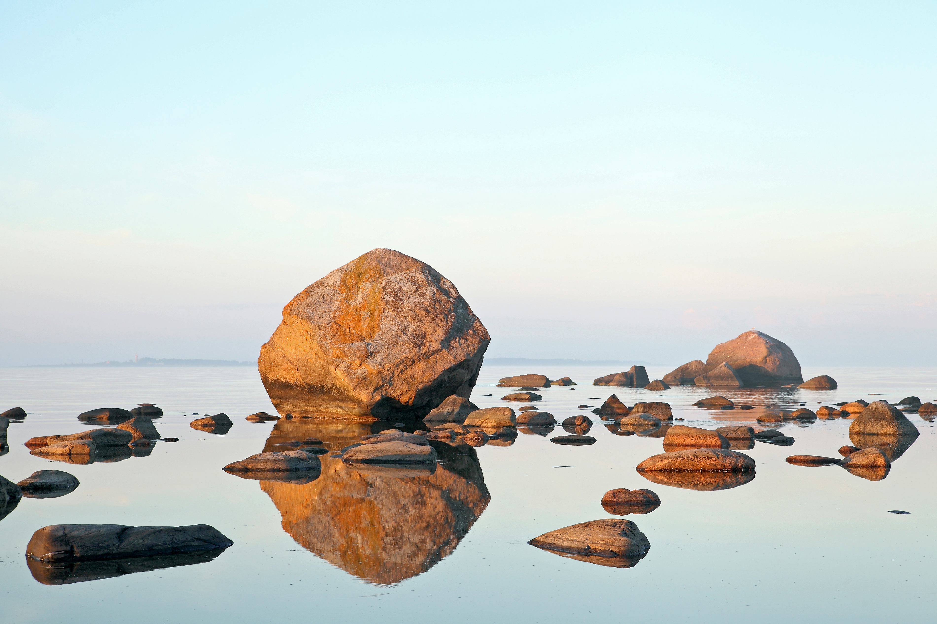 Mähu boulders in Pärispea village, Lahemaa National Park, Estonia. On the distance the skyline of Mohni island is visible.